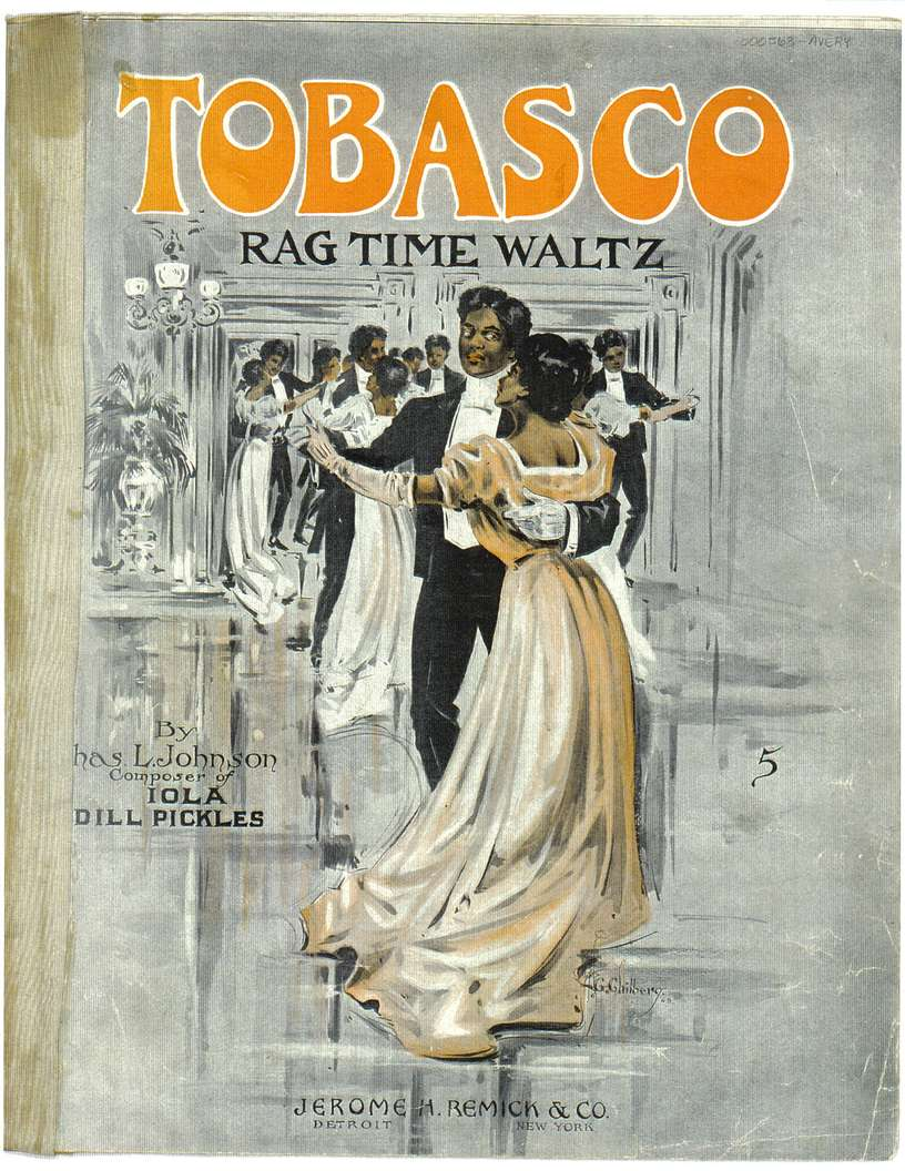 Tobasco, 1909